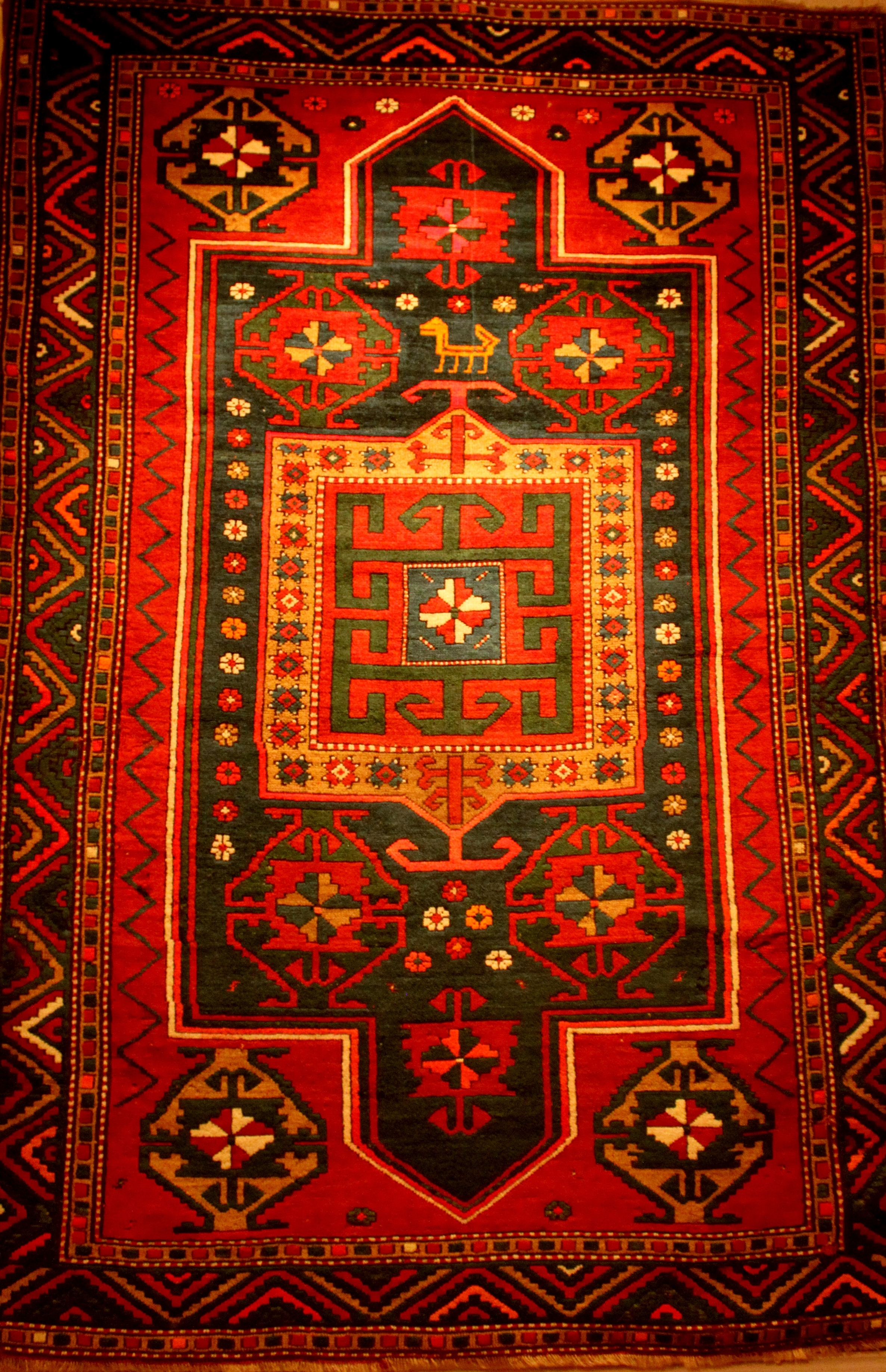 Faxralı carpet, Ganja group of Azerbaijani carpets